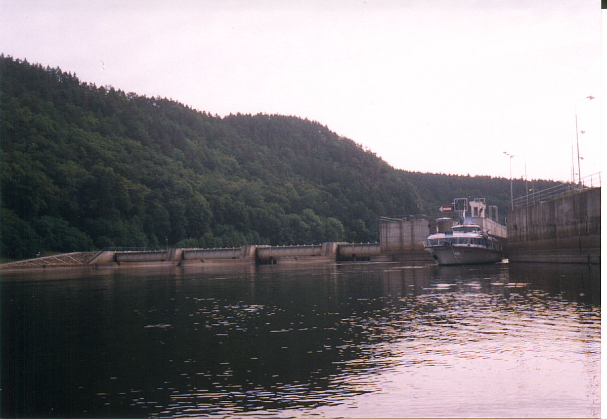 Submerged dam Korensko with ship lock. End of lake of dam Orlik. Vltava river, Czech republic.